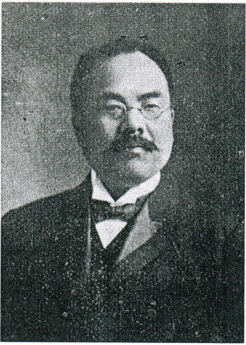 Tameyuki AMANO (1860-1938), a Japanese economist and professor at Waseda University.